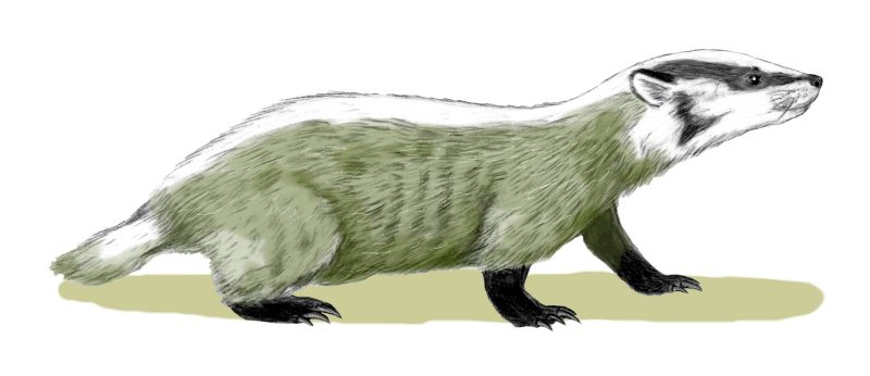 Chamitataxus avitus, a badger from the Late Miocene of New Mexico, pencil drawing